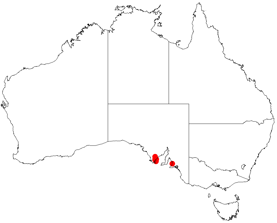 Acacia whibleyana occurrence data from Australasia Virtual Herbarium downloaded from on 8 December 2018